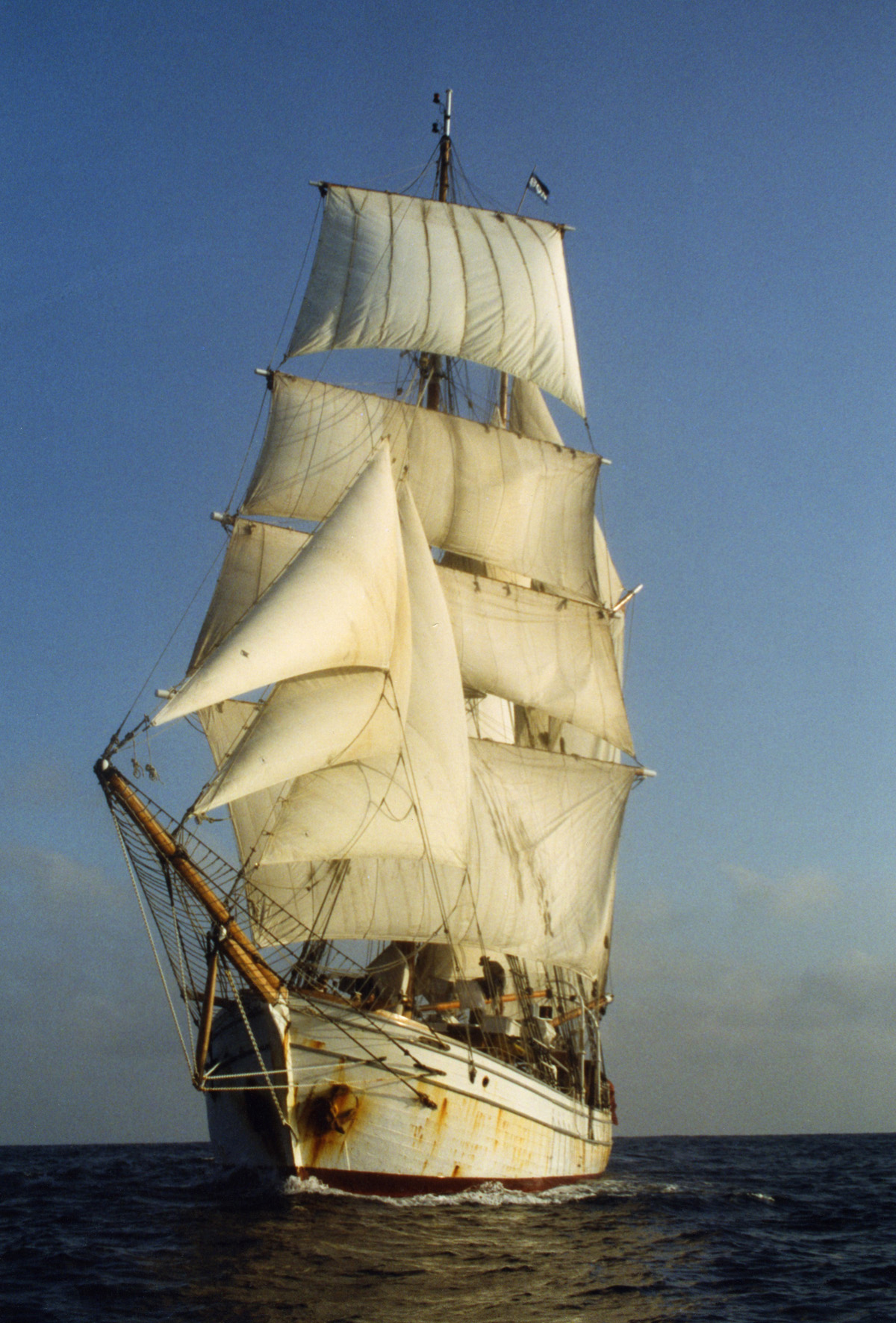 Søren Larsen under full sail in mid Pacific. "None may know the beauty of the sea who has not made a voyage in square-rigged sail; and suffered and enjoyed and gone through trials almost unendurable and pleasures sublime!" Alan Villiers 1928'